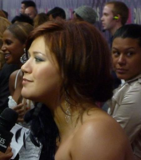 Kelly Clarkson on the Red Carpet at Vh1 Divas 2009.